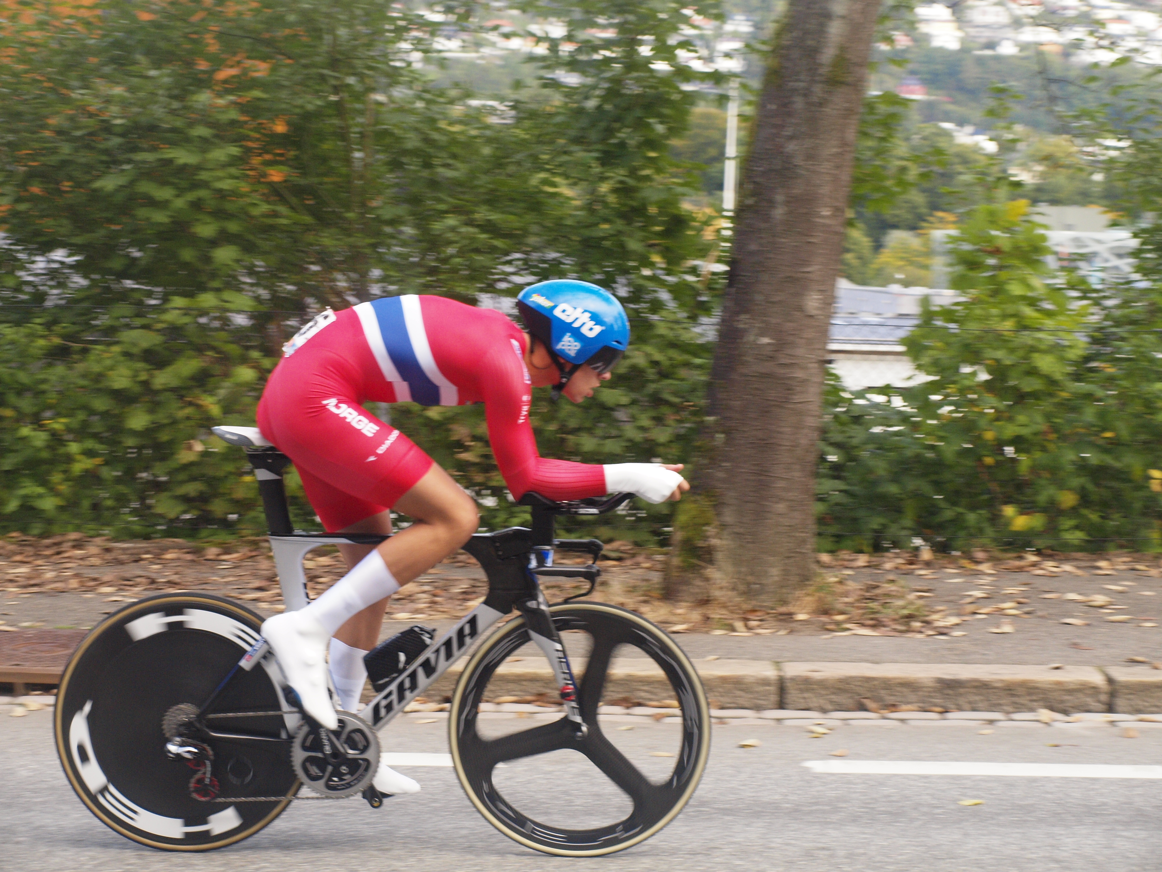 Iver Knotten at the 2017 UCI World Championships